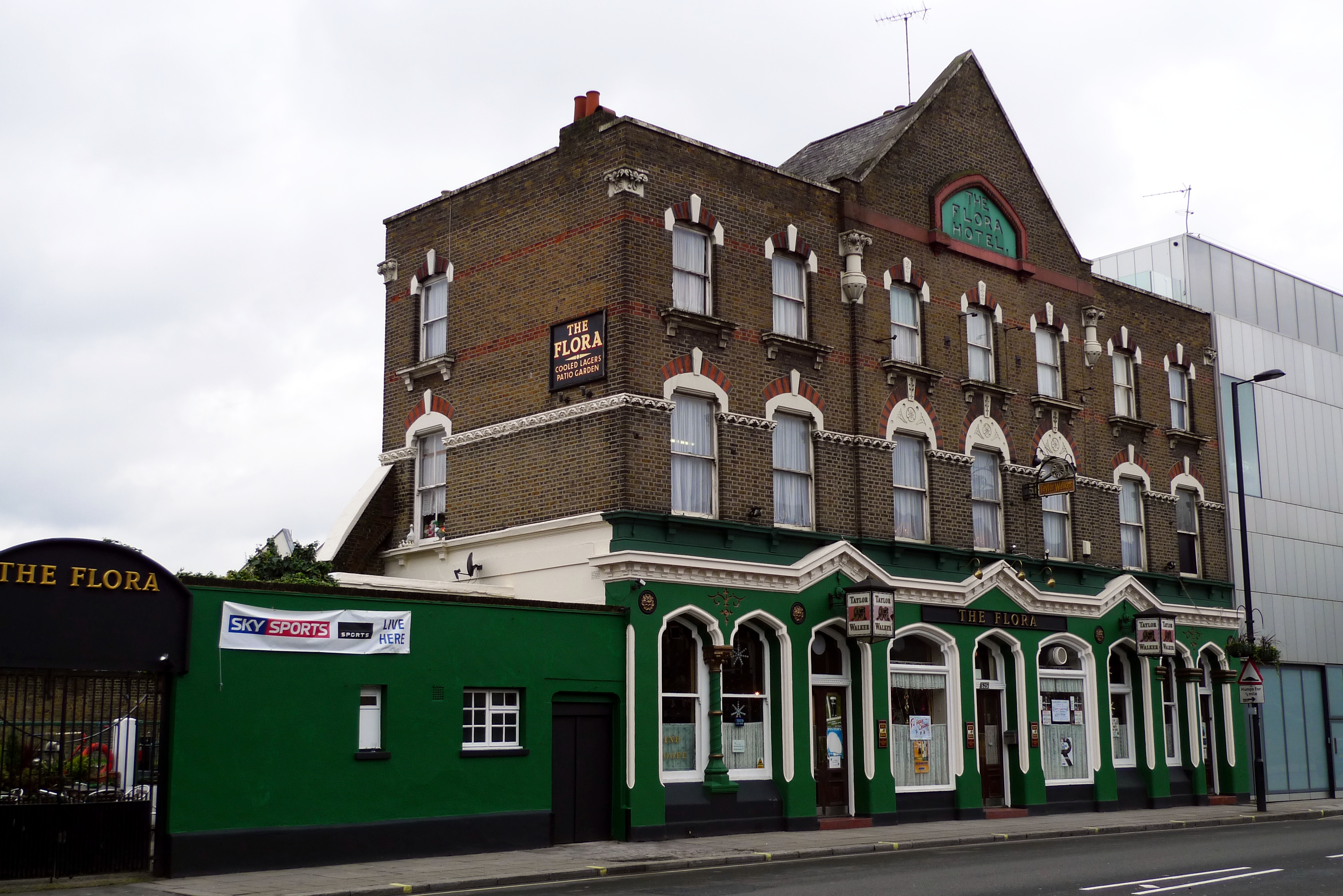 The Flora Hotel, 525 Harrow Road, London W1, seen from east-northeast. Currently controlled by Punch Taverns. Formerly controlled by Taylor Walker. Link: Beer in the Evening